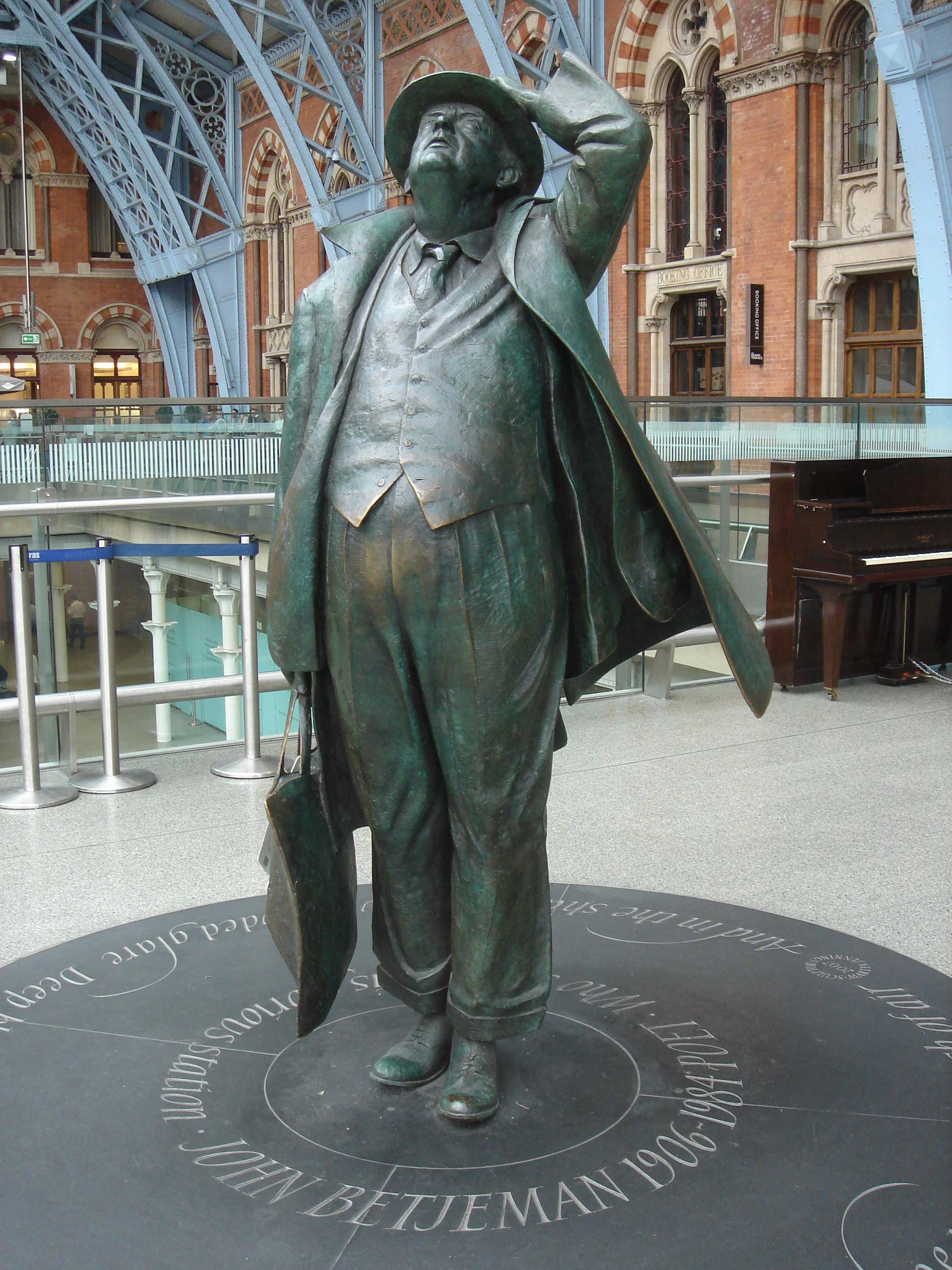 St Pancras Station and Former Midland Grand Hotel